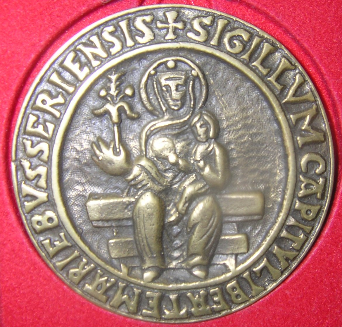 Photo prise par Pierre Lescanne A bronze copy of the seal of the abbaye of Bouxieres-aux-Dames Taken by Pierre Lescanne